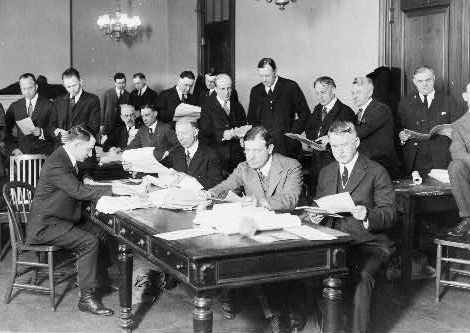 Committee on Elections of the Senate engaged in the counting of the Ford-Newberry vote. Tellers in the foreground of the picture are Senators Walter E. Edge of N.J. and Selden P. Spencer of Mo. Vote to determine if Sen. T.H. Newberry would retain his Senate seat after a series of court cases on political corruption.